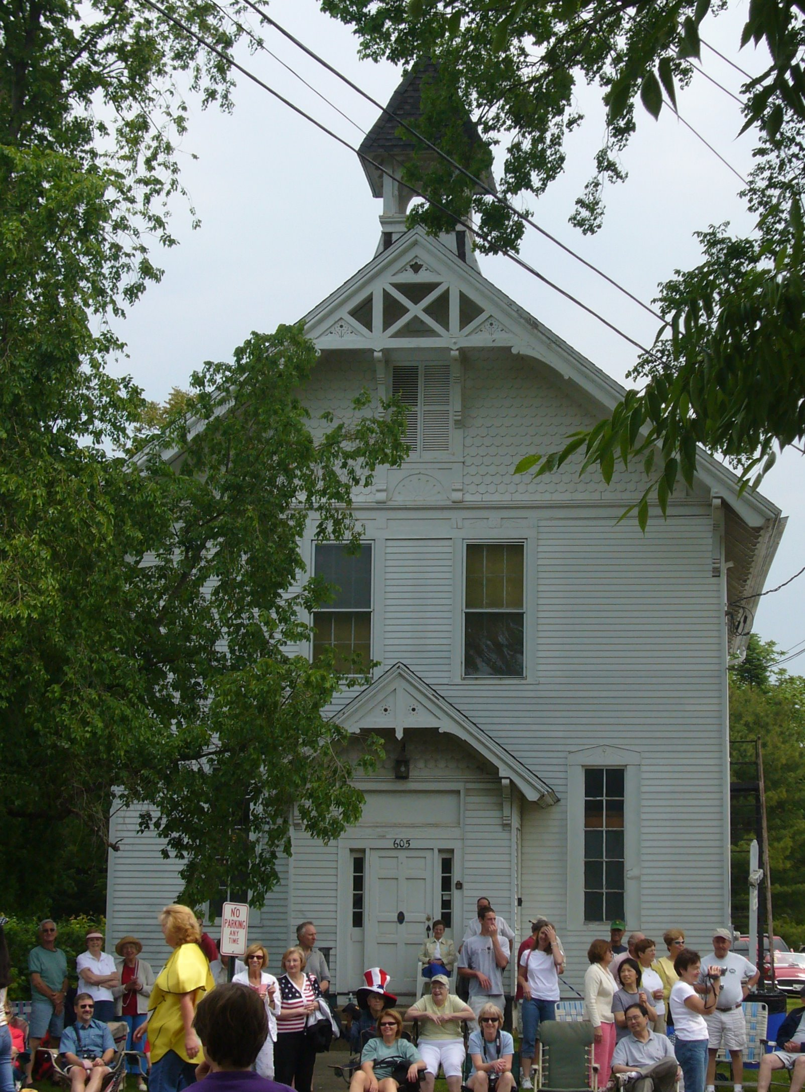 The Academy in Orange, CT (US). Photo taken by User:Staib on May 27, 2007.